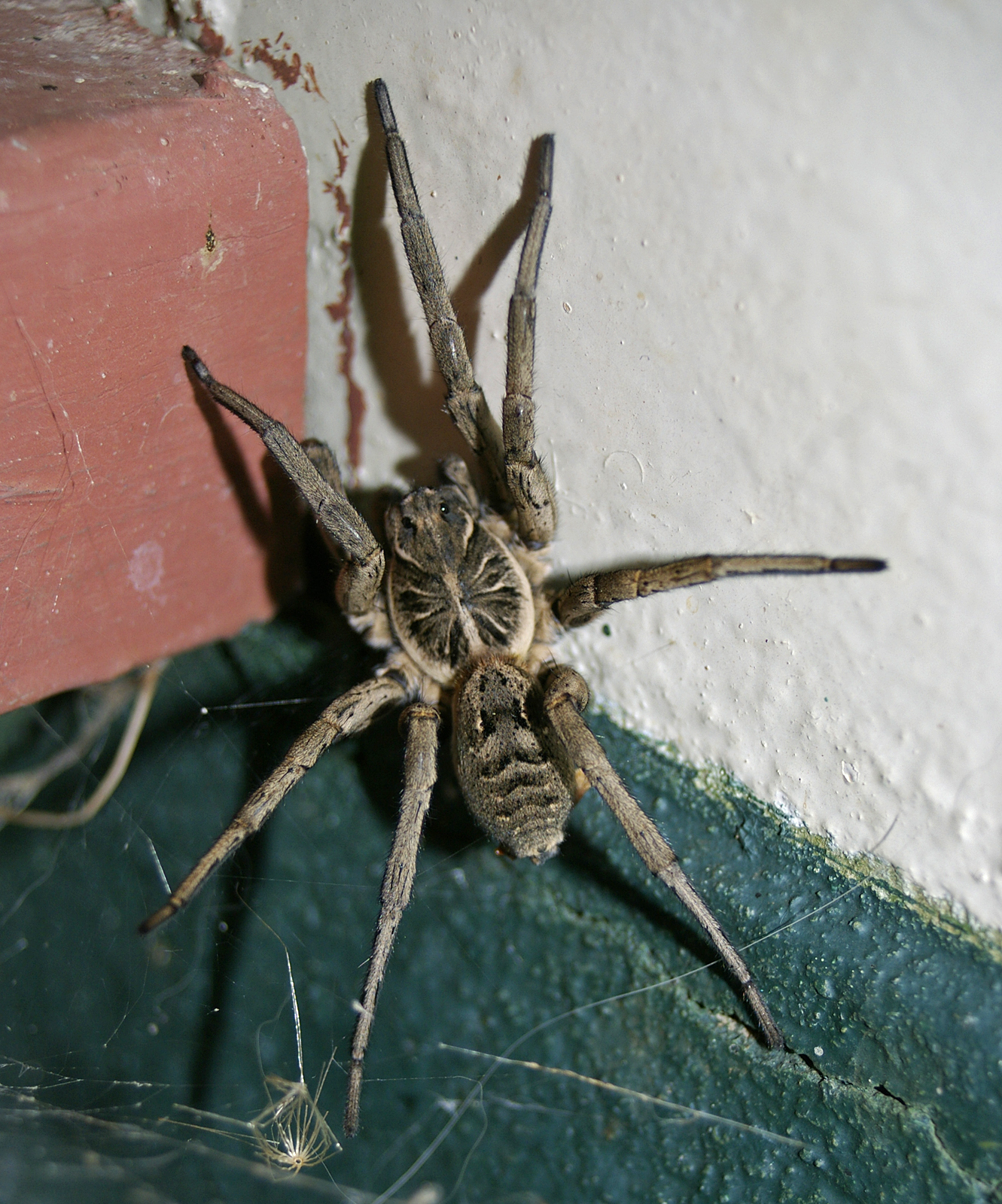 Lycosa leuckarti (Wolf spider) photographed in Wagga Wagga, New South Wales, Australia. Because this photograph concerns privacy since this was taken on a private property, only an approximate location is provided: Wagga Wagga, New South Wales, Australia